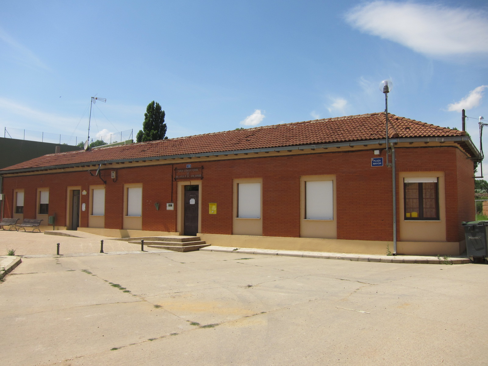 Town hall of Villasila de Valdavia (Palencia, Castile and León).